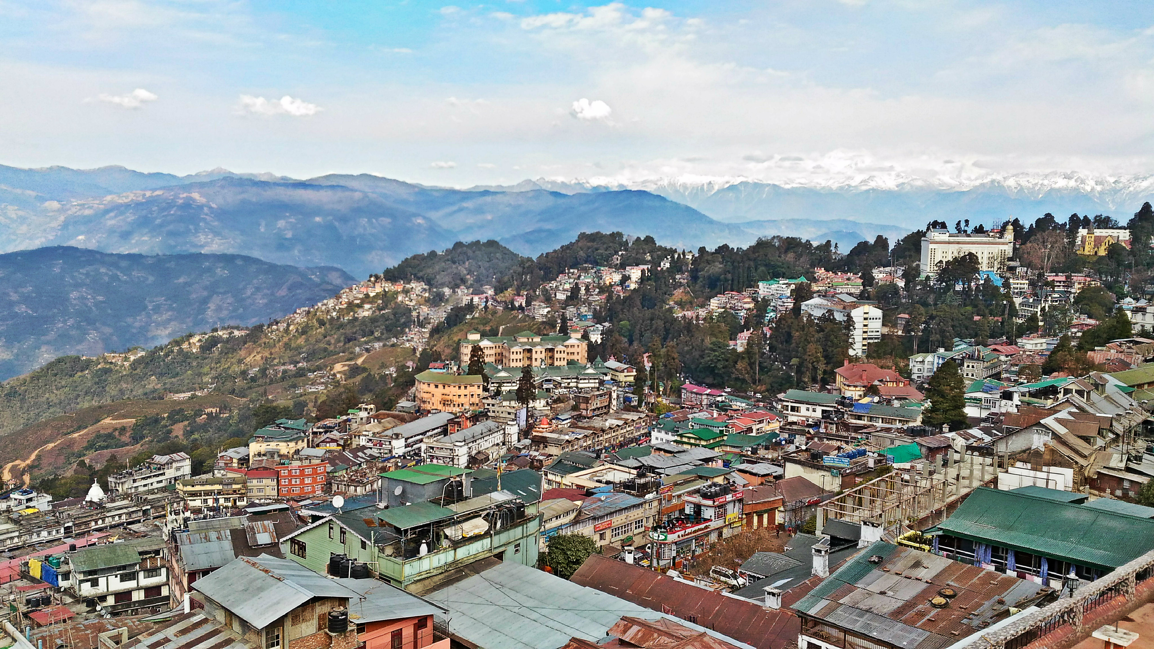 Darjeeling is a town and a municipality in the Indian state of West Bengal. It is located in the Lesser Himalayas at an elevation of 6,700 ft. It is noted for its tea industry, the spectacular views of Kangchenjunga, the world's third-highest mountain, and the Darjeeling Himalayan Railway, a UNESCO World Heritage Site.